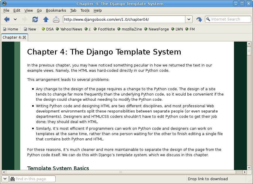 The Kazehakase web browser on Ubuntu, showing some guide to Django.